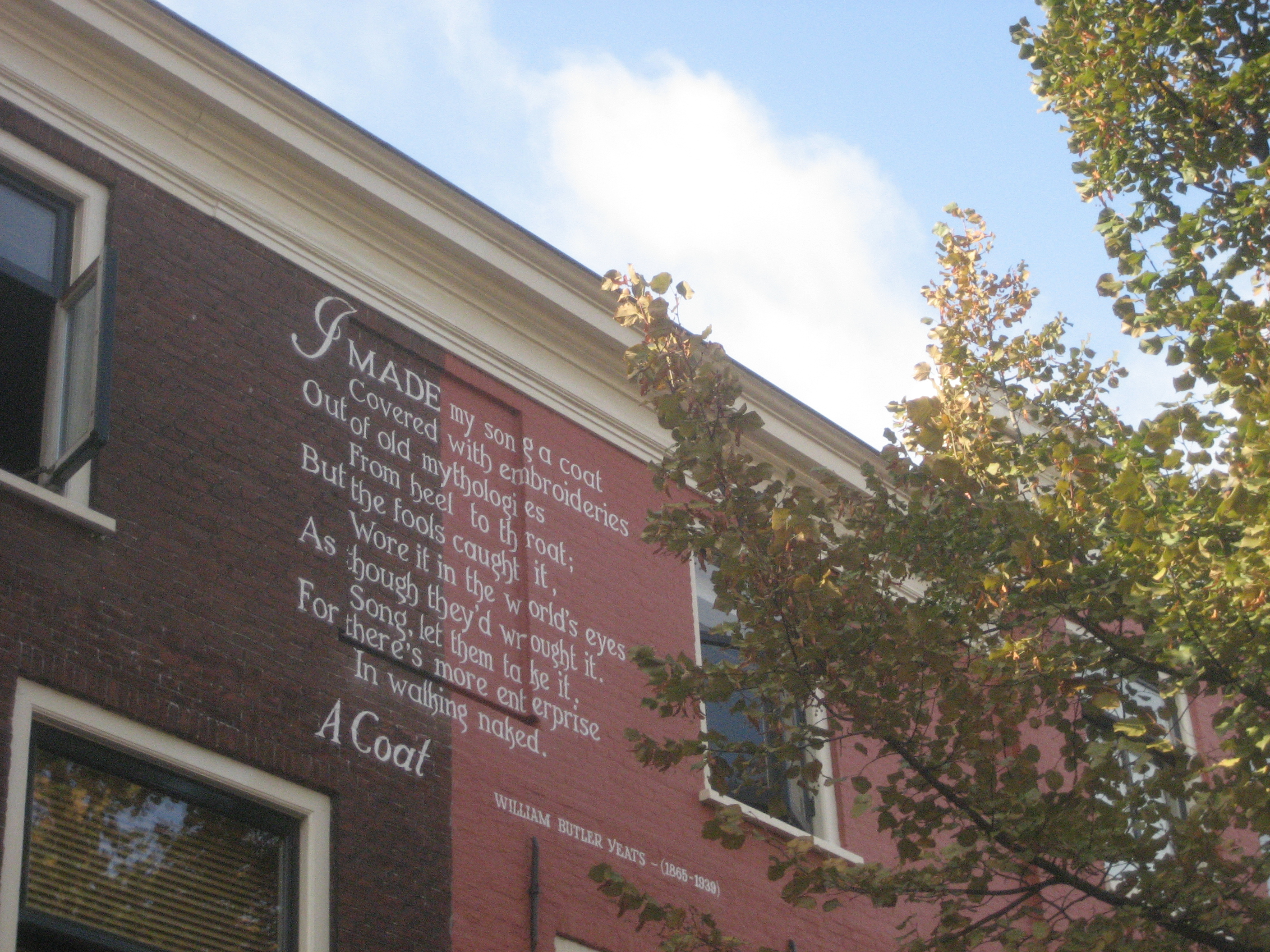 "I made my song a coat", poem by William Butler Yeats on a wall of two houses at Lange Mare 31-33, Leiden (the Netherlands)